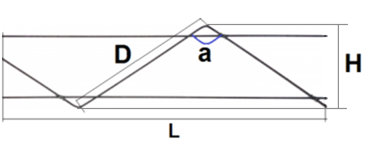 Диагональные связи